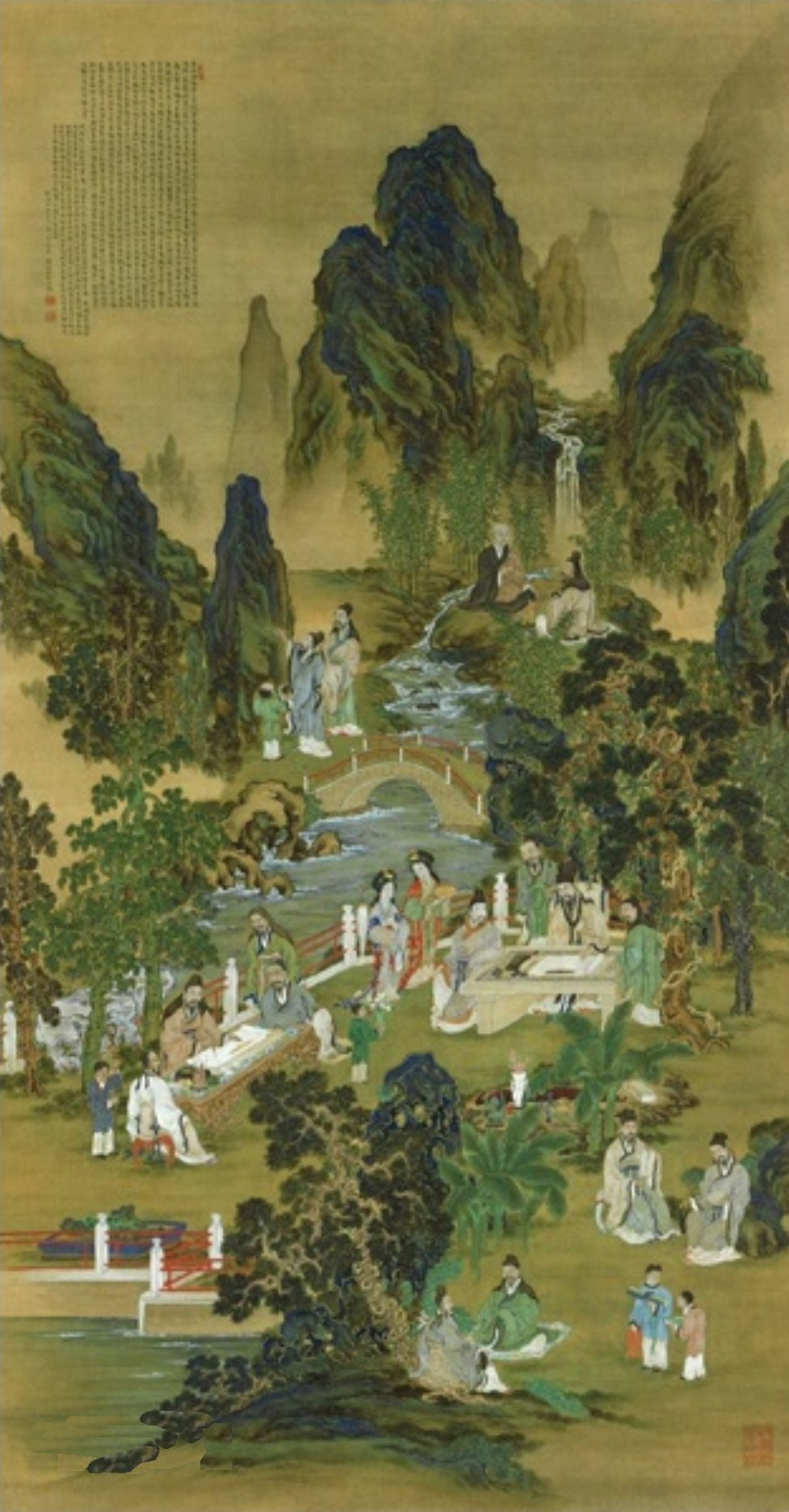 Landscape with figures